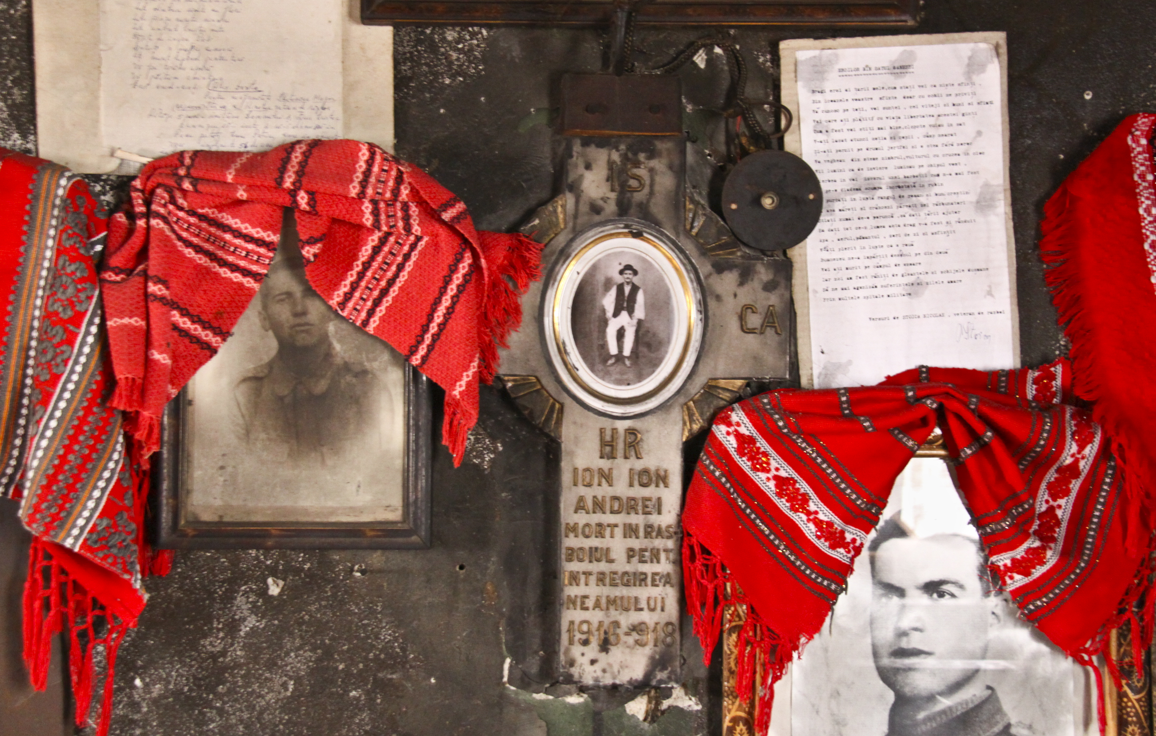 Găneşti, Argeş county, Romania: the wooden church.